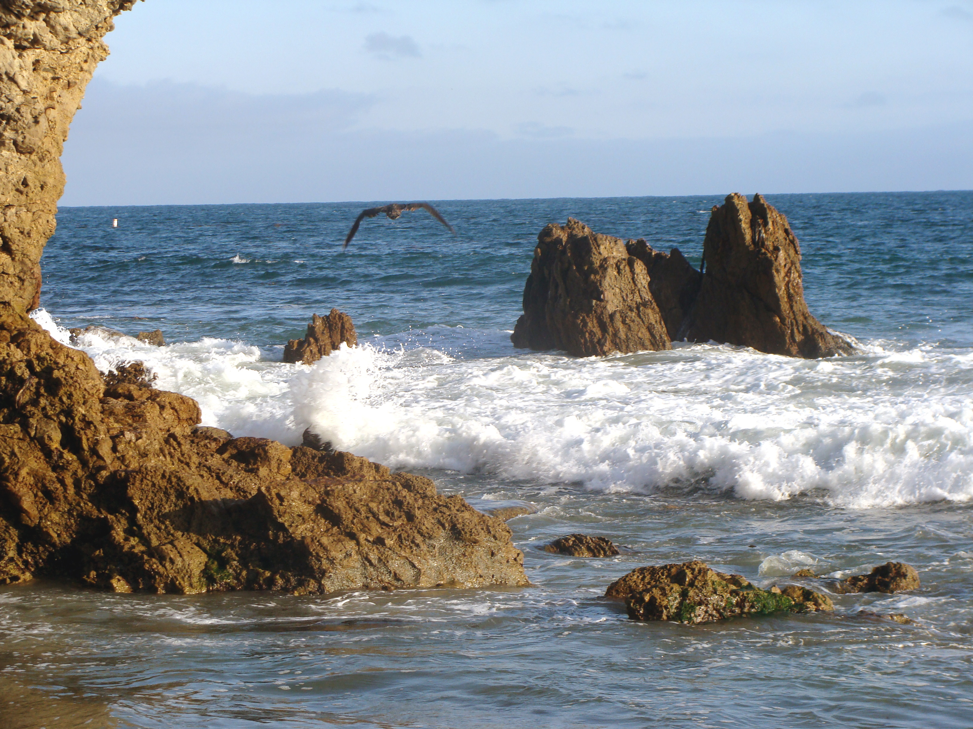 Corona del Mar State Beach, Newport Beach, CA.